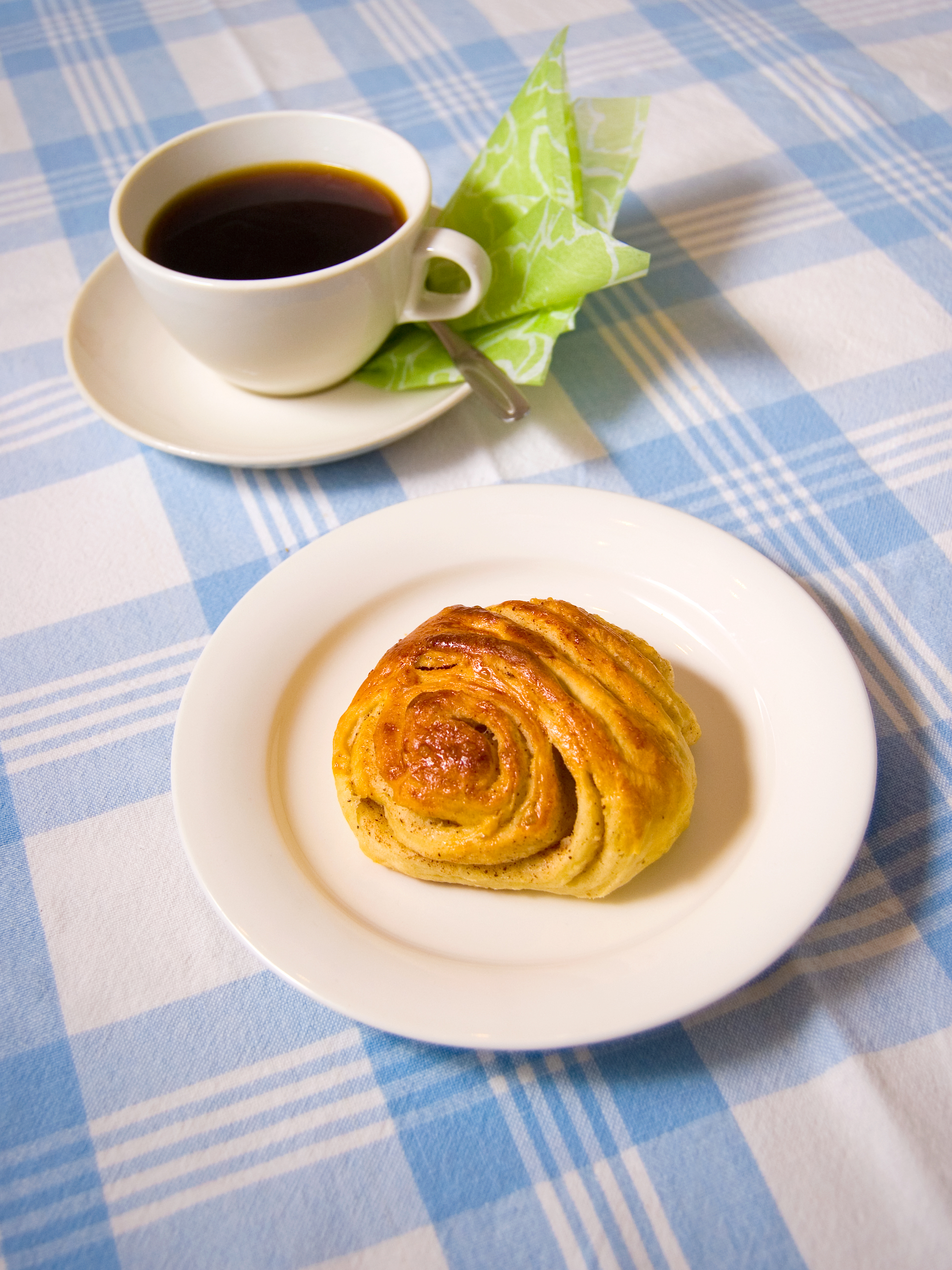 A Finnish cinnamon roll, korvapuusti.